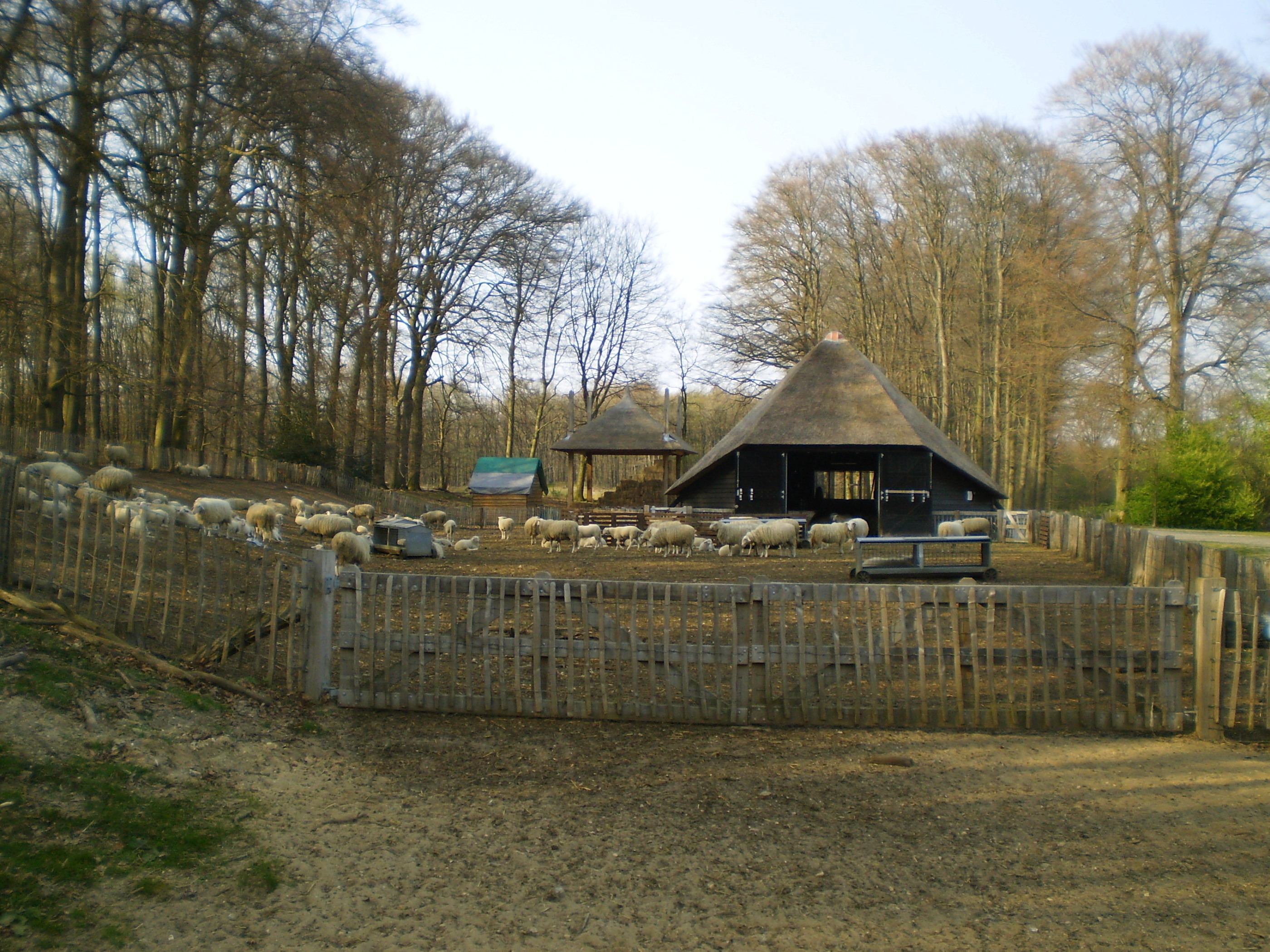 Sheep barn in Hoog Buurlo near Apeldoorn, the Netherlands